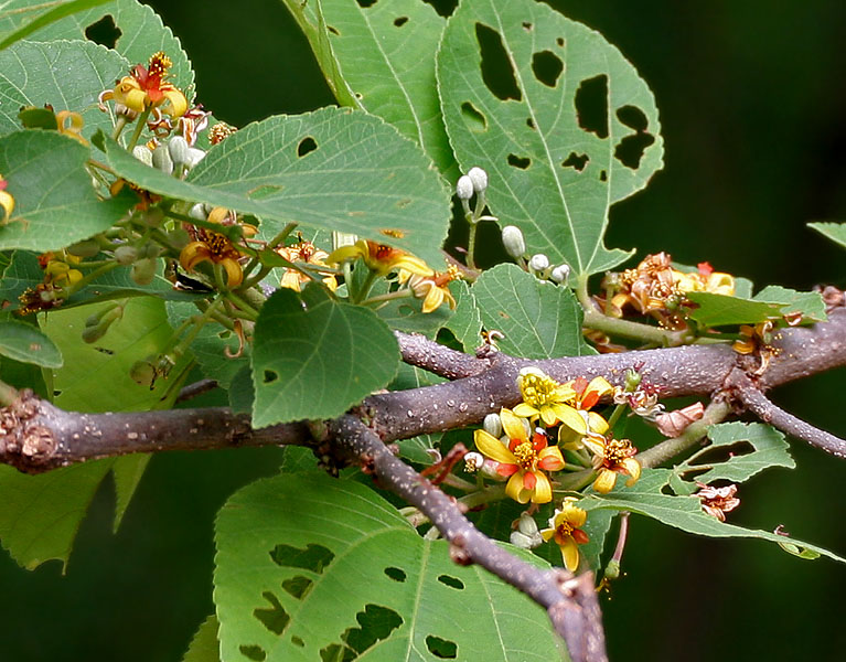 Grewia tiliaefolia - Dhaman • Hindi: Dhamani • Tamil: Unu • Malayalam: Unnam • Telugu: Cahrachi • Kannada: Todsal • Bengali: Dhamin • Sanskrit: धनु व्रिक्ष Dhanu vriksha - at Ananthagiri Hills, in Rangareddy district of Andhra Pradesh, India.